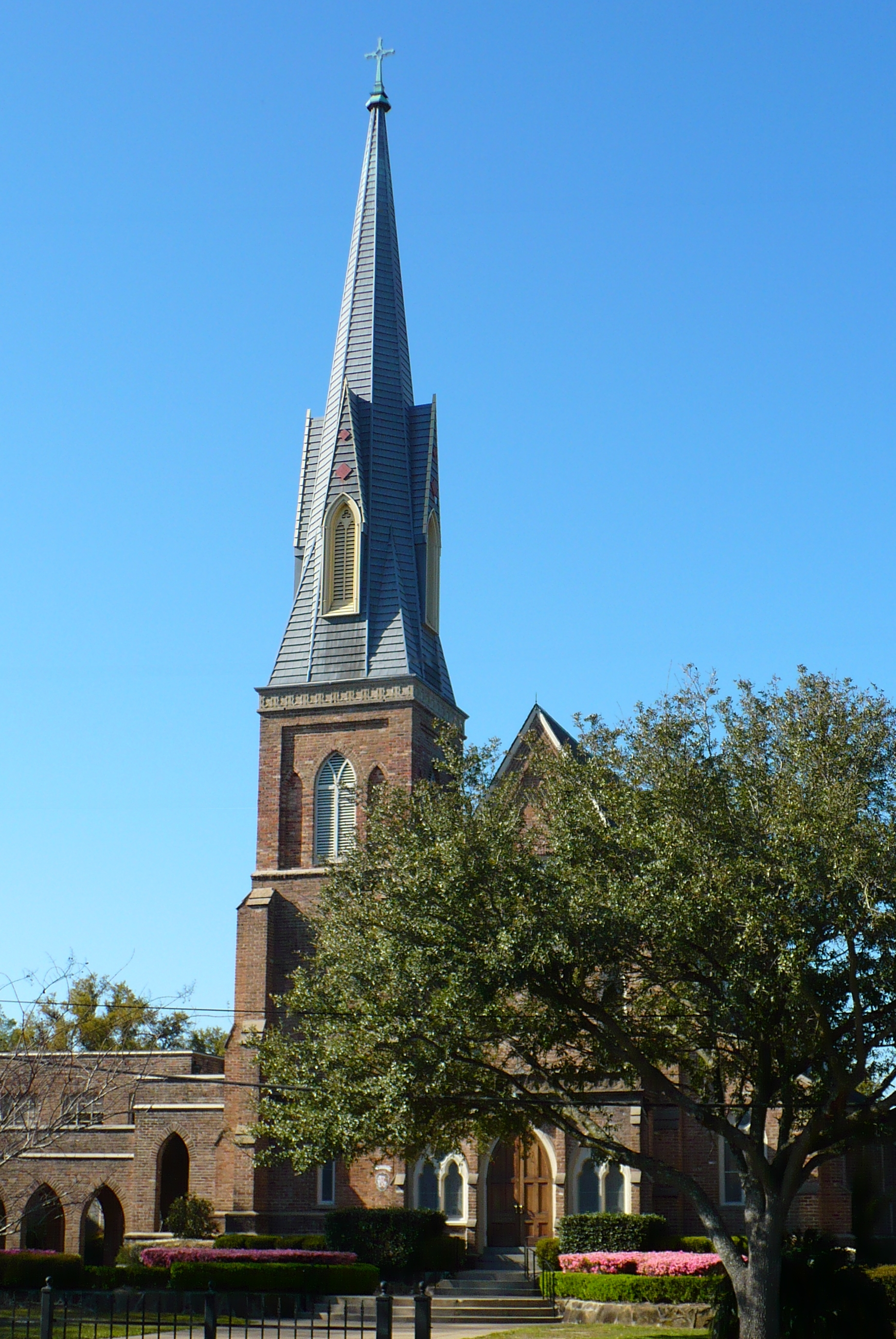 Trinity Episcopal Church in Mobile, Alabama. It was designed by architects Frank Wills and Henry Dudley of New York City. The cornerstone was placed in 1853 and the building was completed in 1857.